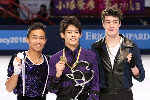 Florent Amodio (2), Takahiko Kozuka (1), Brandon Mroz (3) at the 2010 Trophy Eric Bompard.